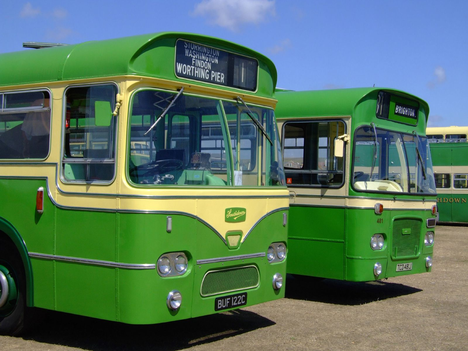 Leyland and Bristol buses in the livery of Southdown.